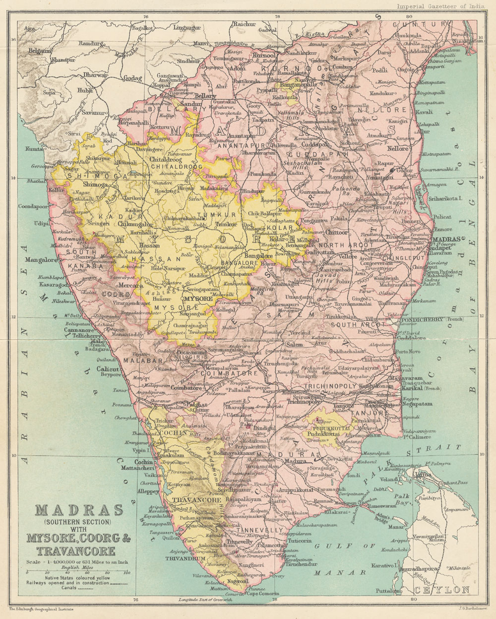 Madras Presidency, Coorg, Mysore and Travancore; Southern section of British India.